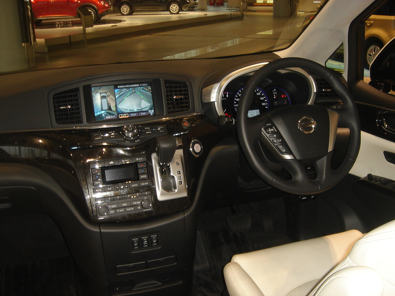 Nissan Elgrand